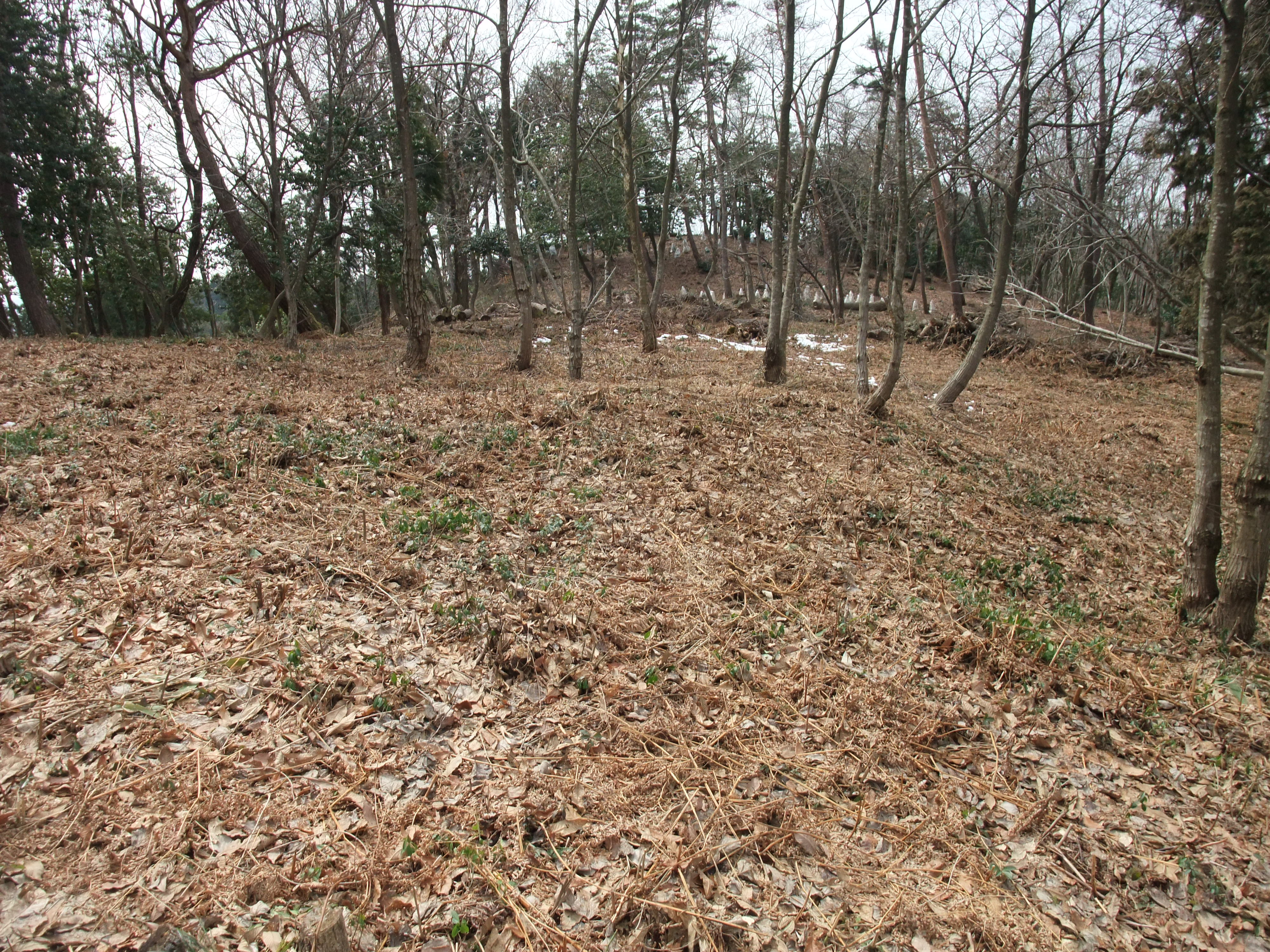 photo of Kamo castle (Toyama Japan)